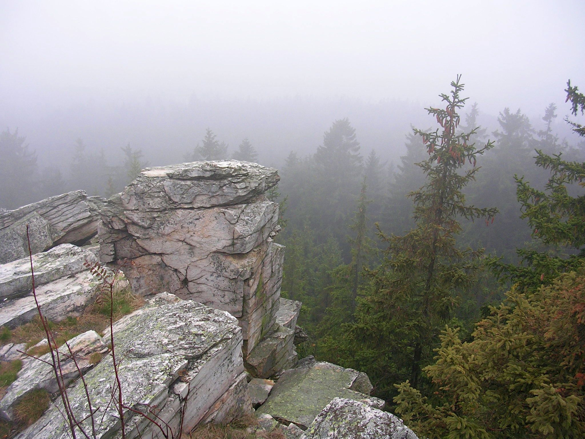 Paseky nad Jizerou, Semily District, Liberec Region, the Czech Republic. Bílá skála (White Rock).